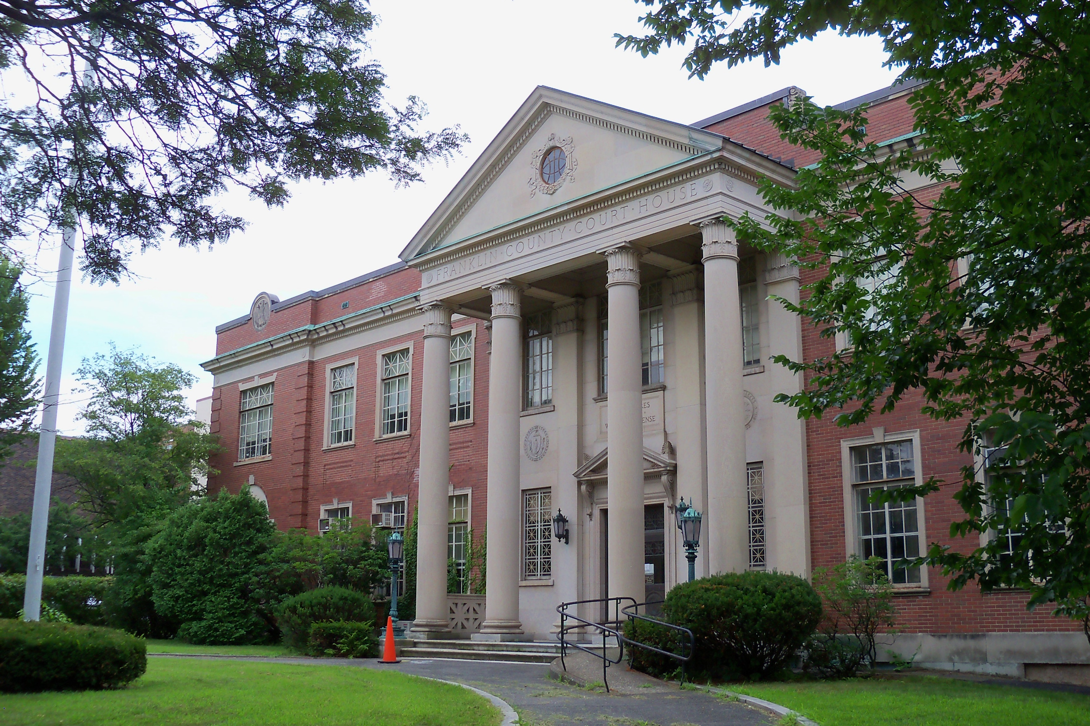 Franklin County Courthouse in Greenfield, Massachusetts, USA.